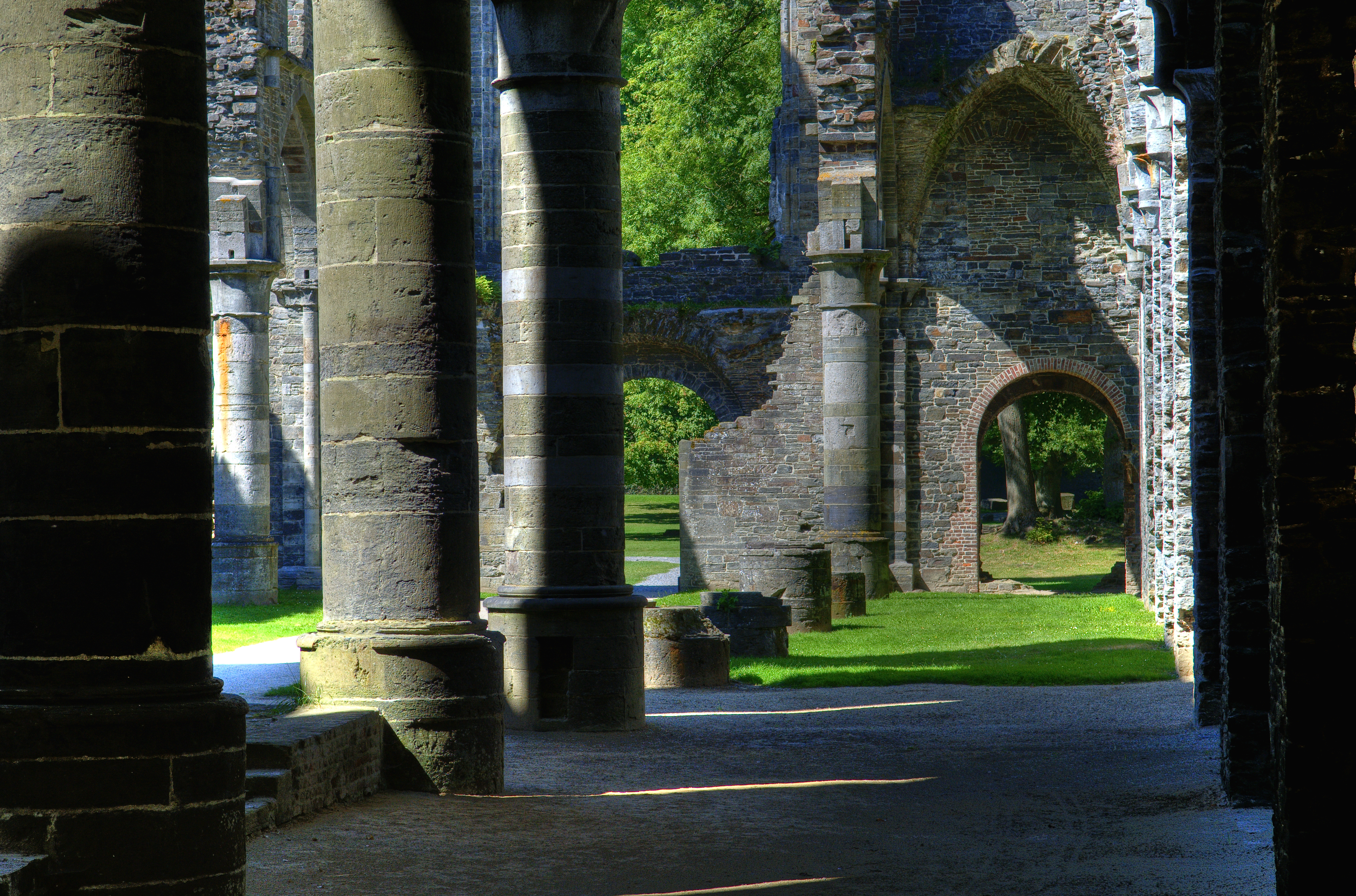 Villers Abbey (abbaye de Villers) is an ancient Cistercian abbey located near the town of Villers-la-Ville in the Brabant province of Wallonia (Belgium), one piece of the Wallonia's Major Heritage. Founded in 1146, the abbey was abandoned in 1796. Most of the site has since fallen into ruins. More